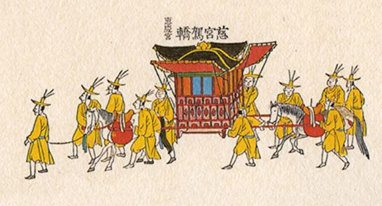 Section of a girokhwa called "Royal Procession to the City of Hwaseong" commissioned in 1795 by King Jeongjo to commemorate his visit to his father’s tomb. The palanquin shown carries Lady Hyegyeong.